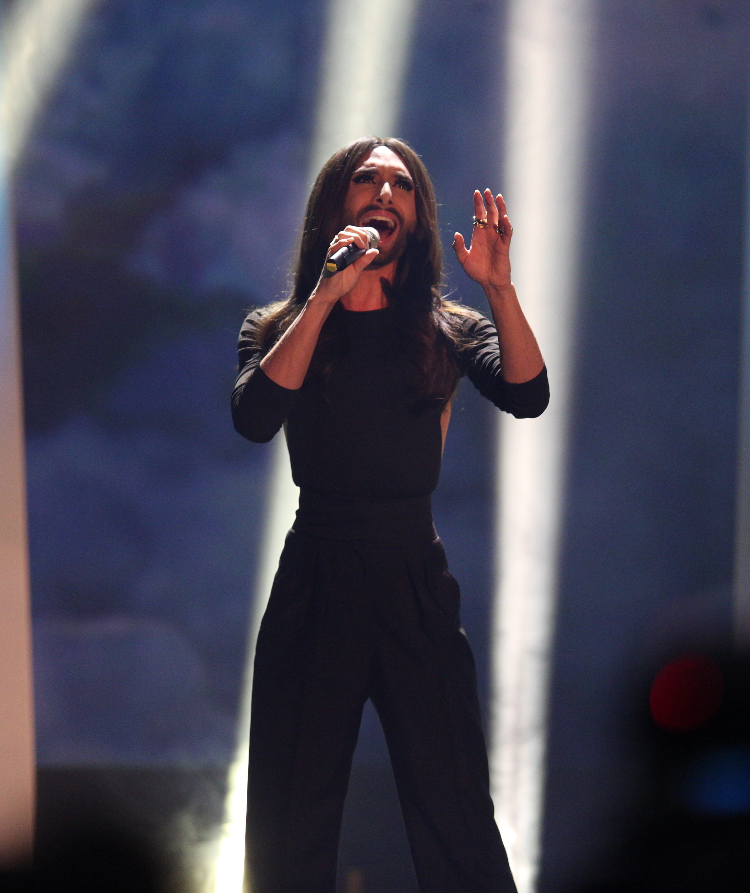 Wetten, dass.. ? 214. show in Graz, 8. Nov. 2014 Conchita Wurst at 214. Wetten, dass.. ? show in Graz, 8. Nov. 2014